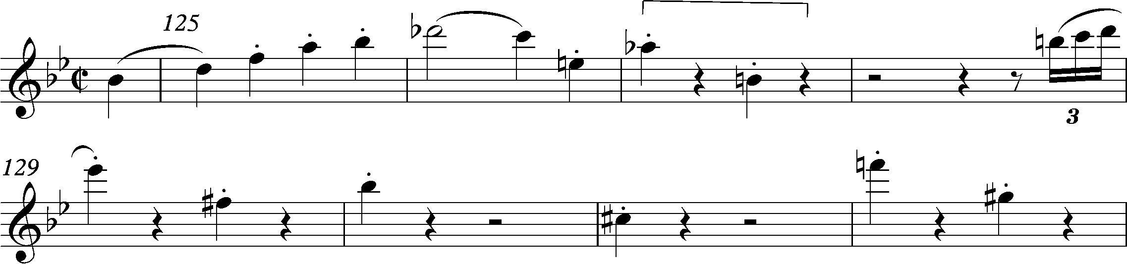 Mozart, Symphony No. 40, final,e bars 125-130